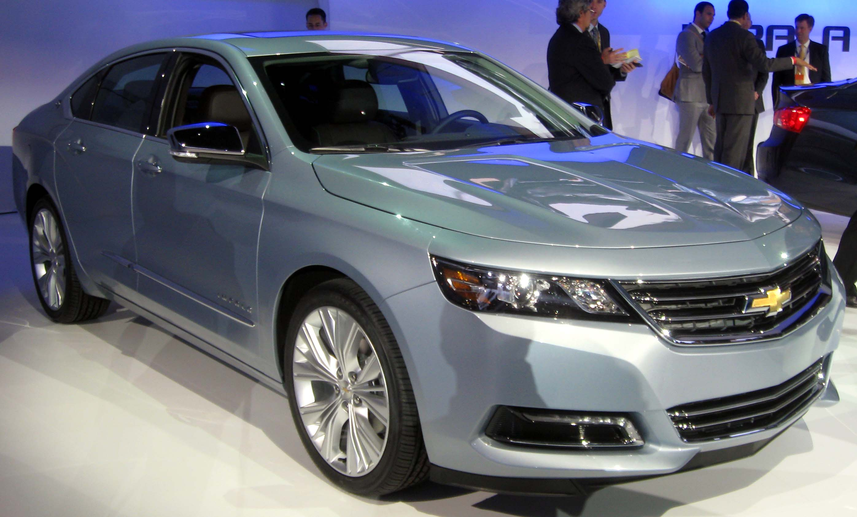 2014 Chevrolet Impala photographed at the 2012 New York International Auto Show.